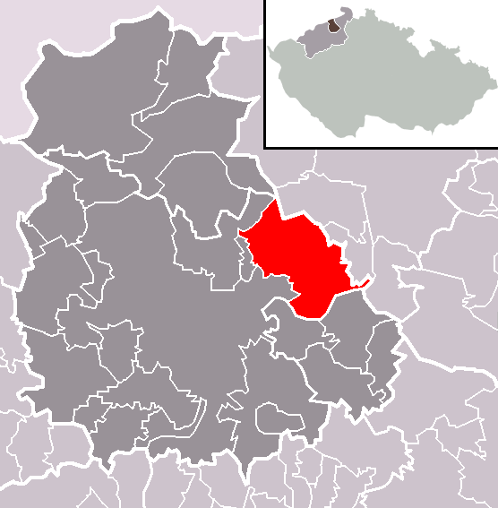 Location of Povrly municipality within Ústí nad Labem District and administrative area of Ústí nad Labem as a Municipality with Extended Competence.